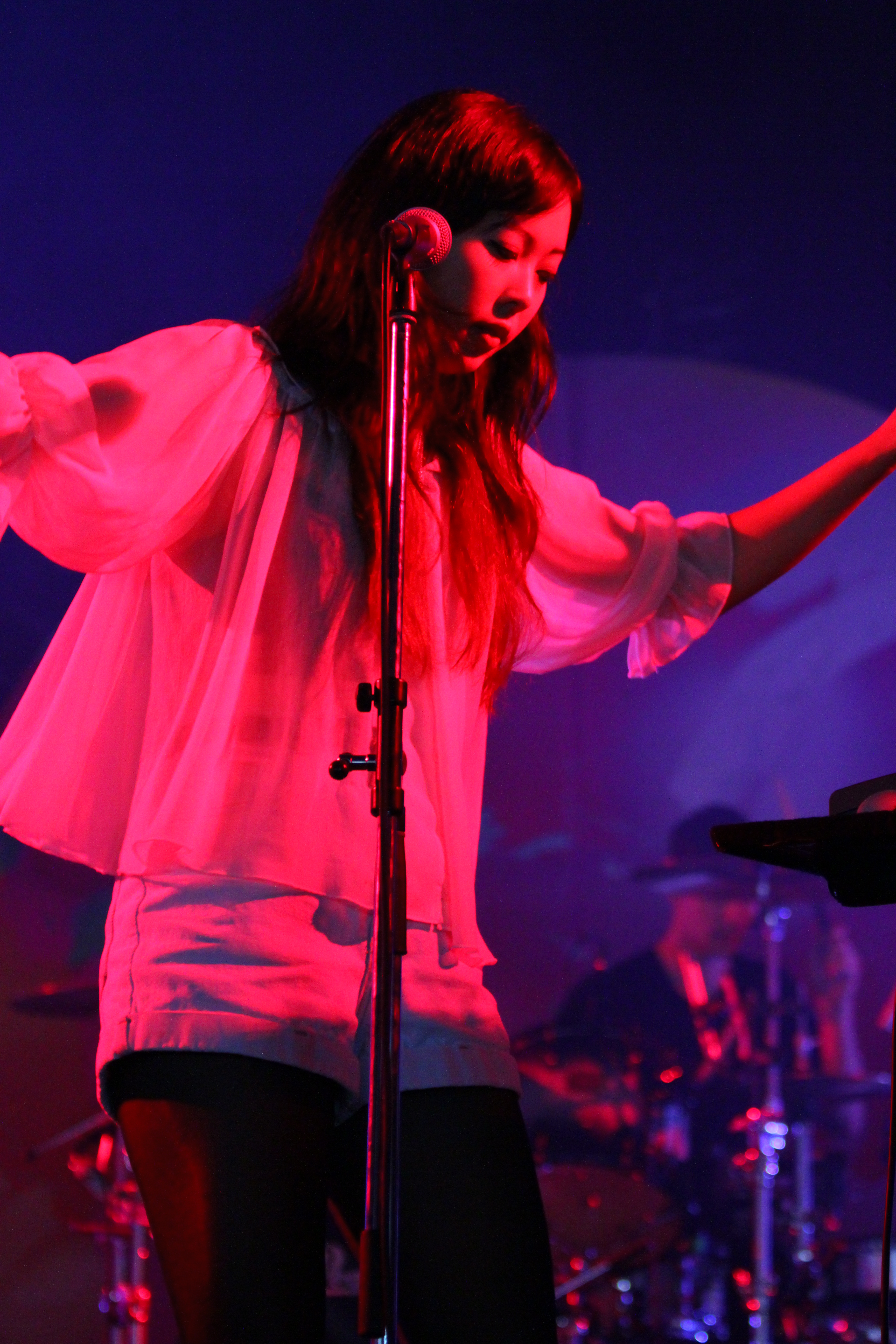 Alisa Xayalith of The Naked And Famous live July 30, 2011